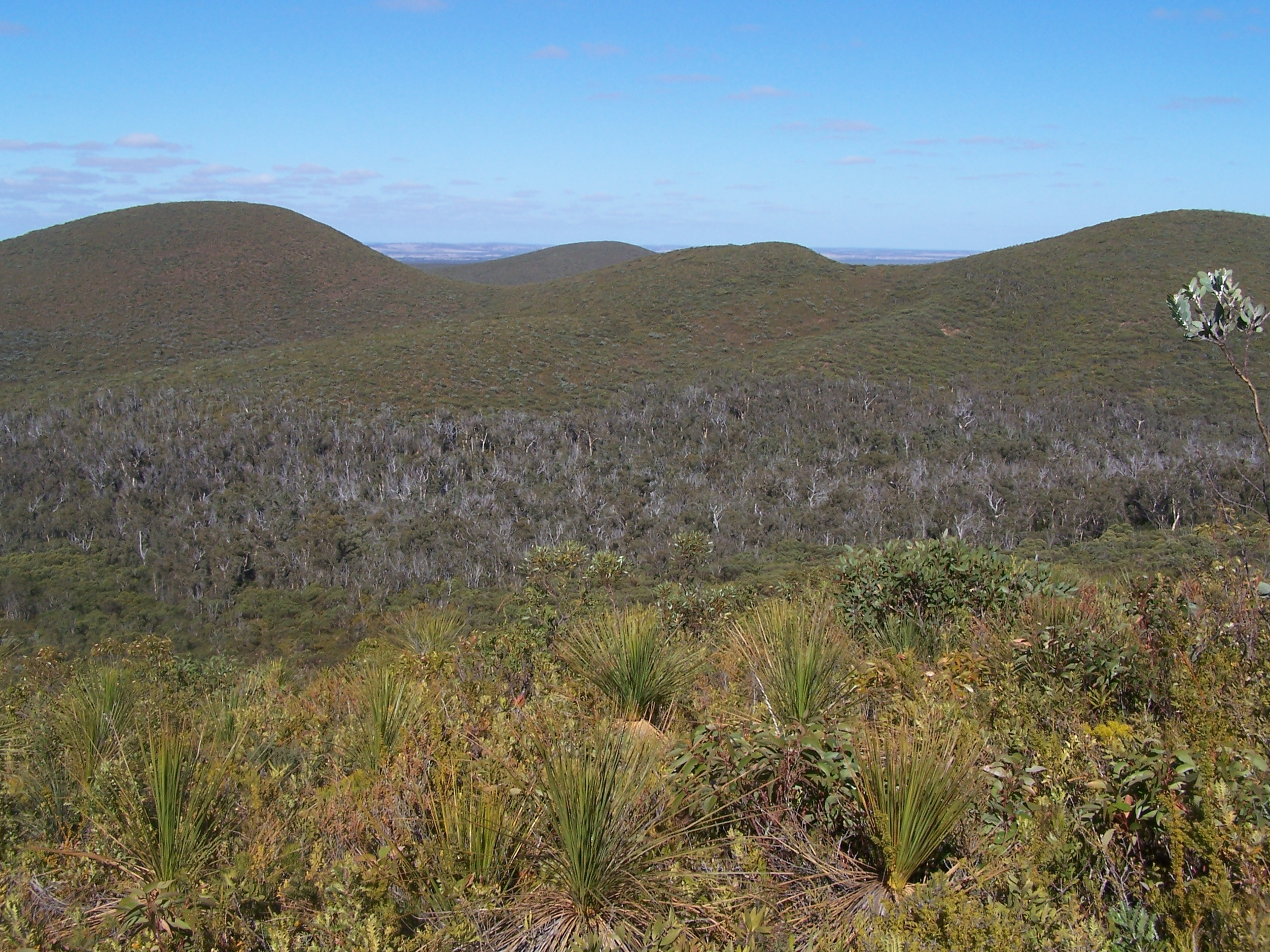 Valley in the Stirling Range, where all the eucalypt trees show the effects of a dieback infestation